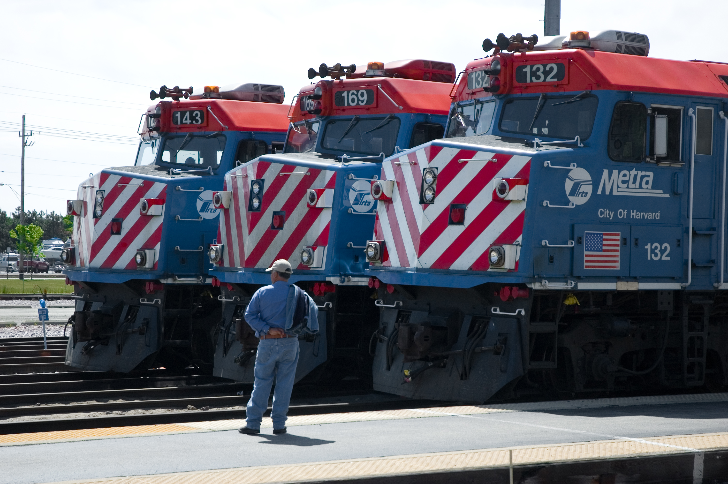 Numbers 132, 169 and 143